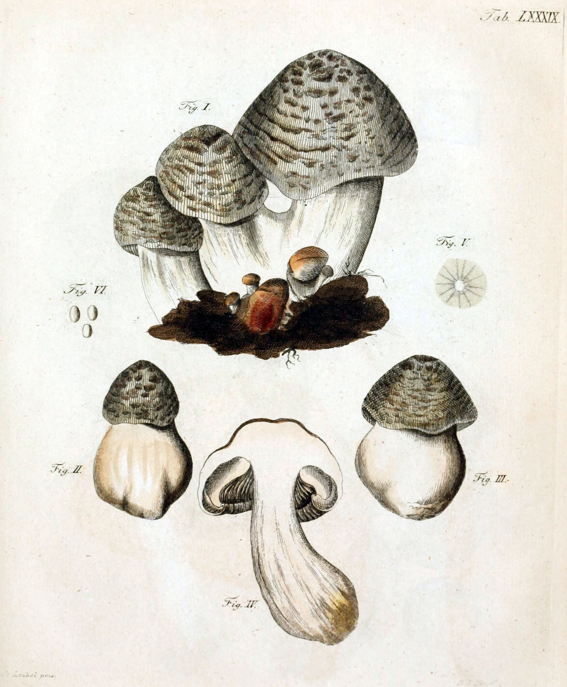 Illustration of the mushroom called Agaricus tigrinus by Jacob Christian Schäffer ; this illustration was later determined to be that of the species now known as Tricholoma pardinum (Pers.) Quél.